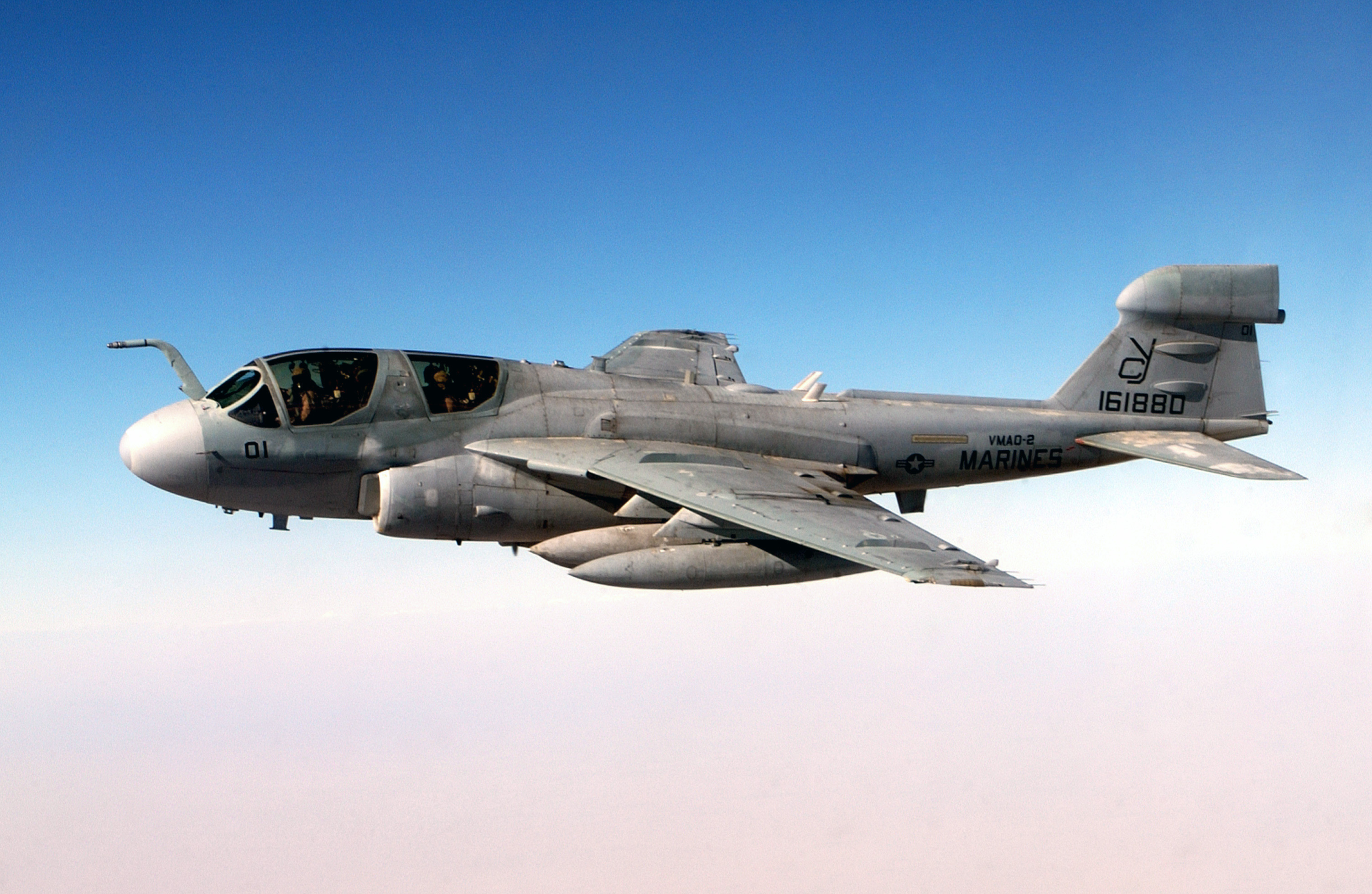 Aerial of a US Marine Corps (USMC) EA-6B Prowler, Marine Tactical Electronic Warfare Squadron 2 (VMAQ-2), Marine Corps Air Station (MCAS) Cherry Point, North Carolina (NC), in the sky over Iraq (IRQ) during a combat mission in support of Operation IRAQI FREEDOM.